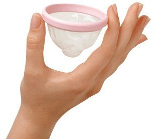 instead soft cup